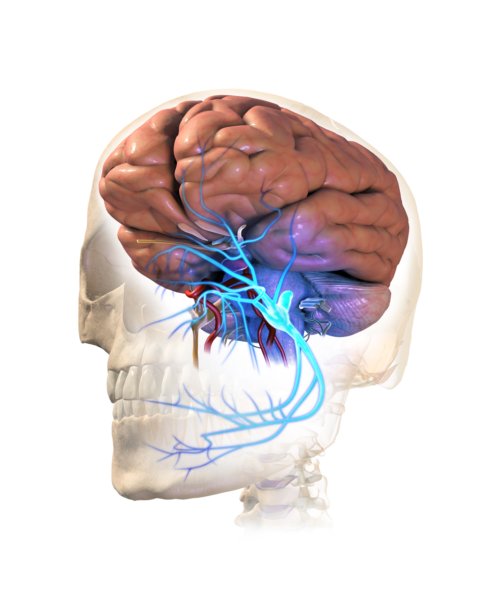 Trigeminal Neuralgia. This image was donated by Blausen Medical. Please visit our website to see more medical illustrations and animations.